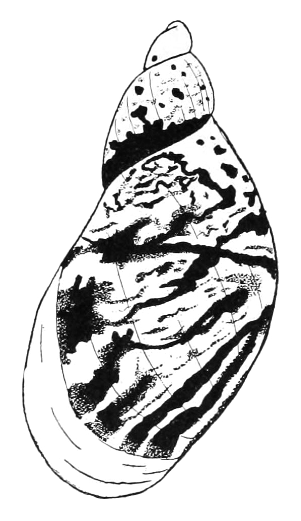 Drawing of the abapertural view of the shell with live animal of Novisuccinea chittenangoensis inside. No 90081 A. N. S. P. (Academy of Natural Sciences) which is a cotype of Novisuccinea chittenangoensis. Height of the shell: 23.3 mm, width of the shell: 11.3, height of the aperture: 14 mm.